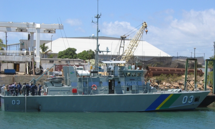 Royal Solomon Islands Police Vessel Lata in Townsville Harbour for maintenance